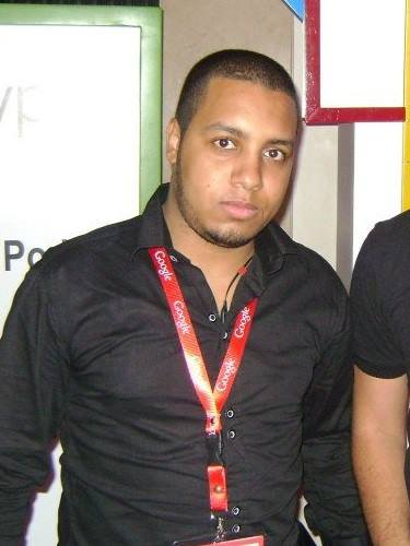 egypt 2.0 event